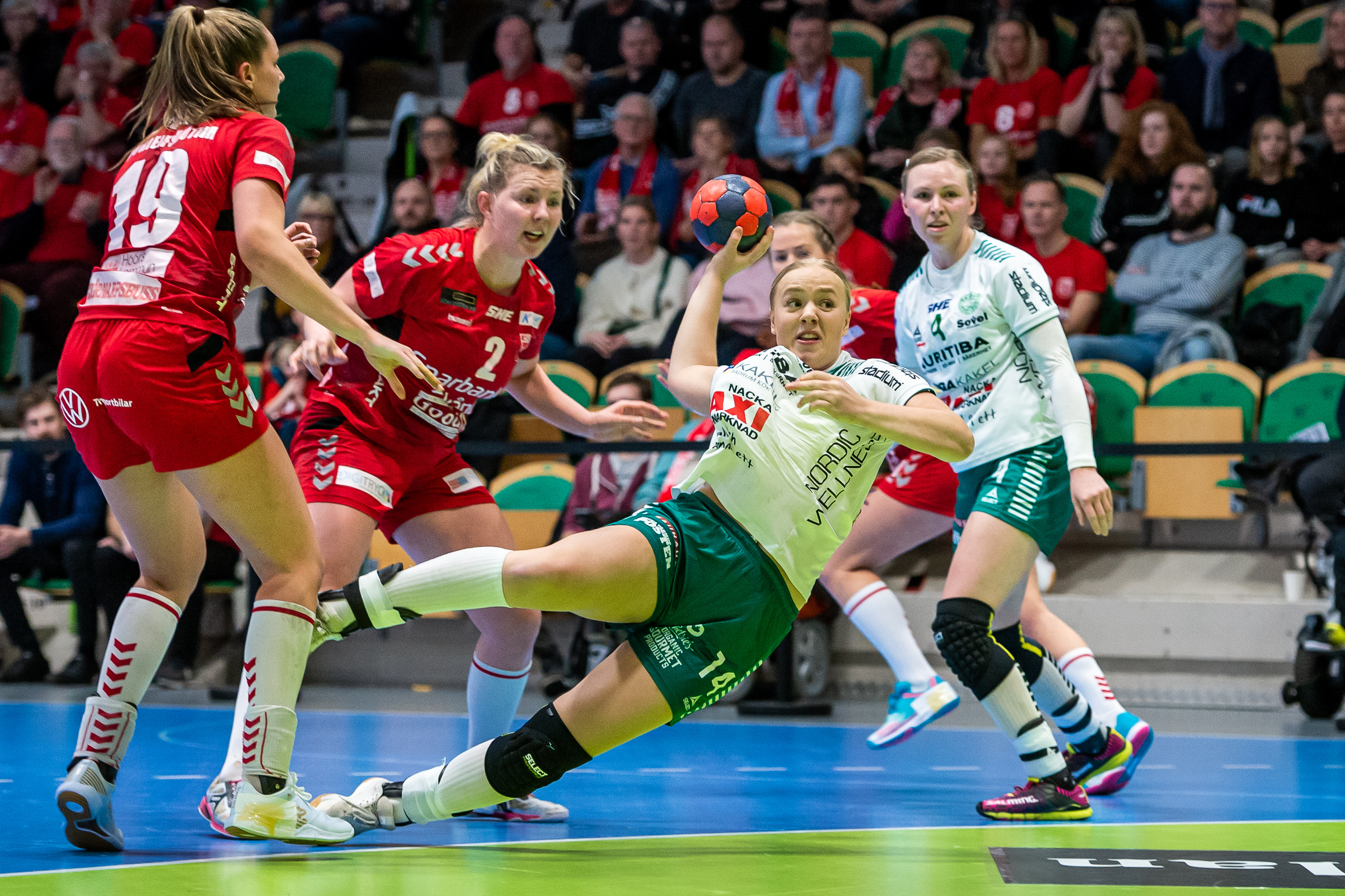 Foto: Christoffer Borg Mattisson / @borgmattisson / H65 Höör